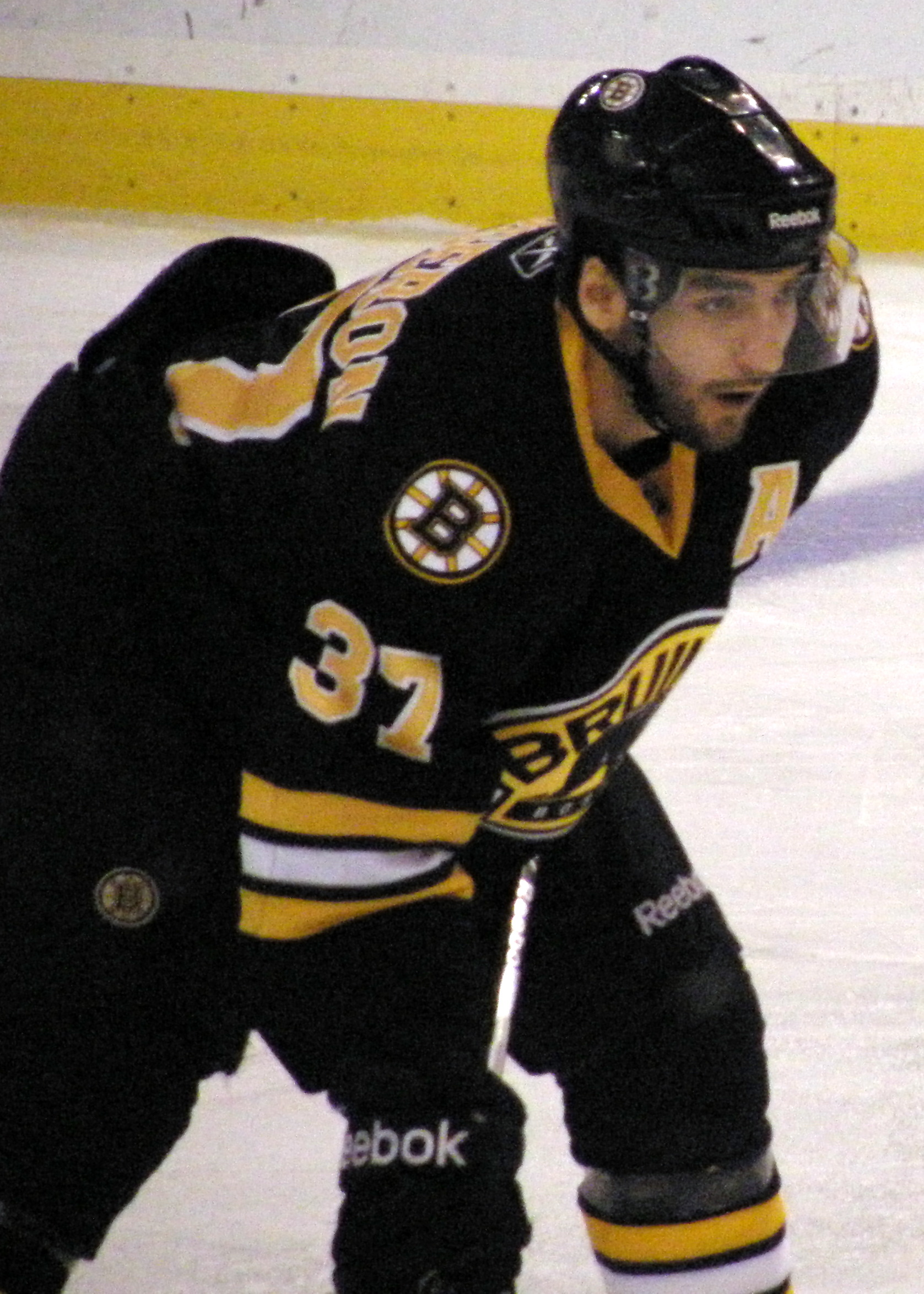 37 Patrice Bergeron (C, BOS)